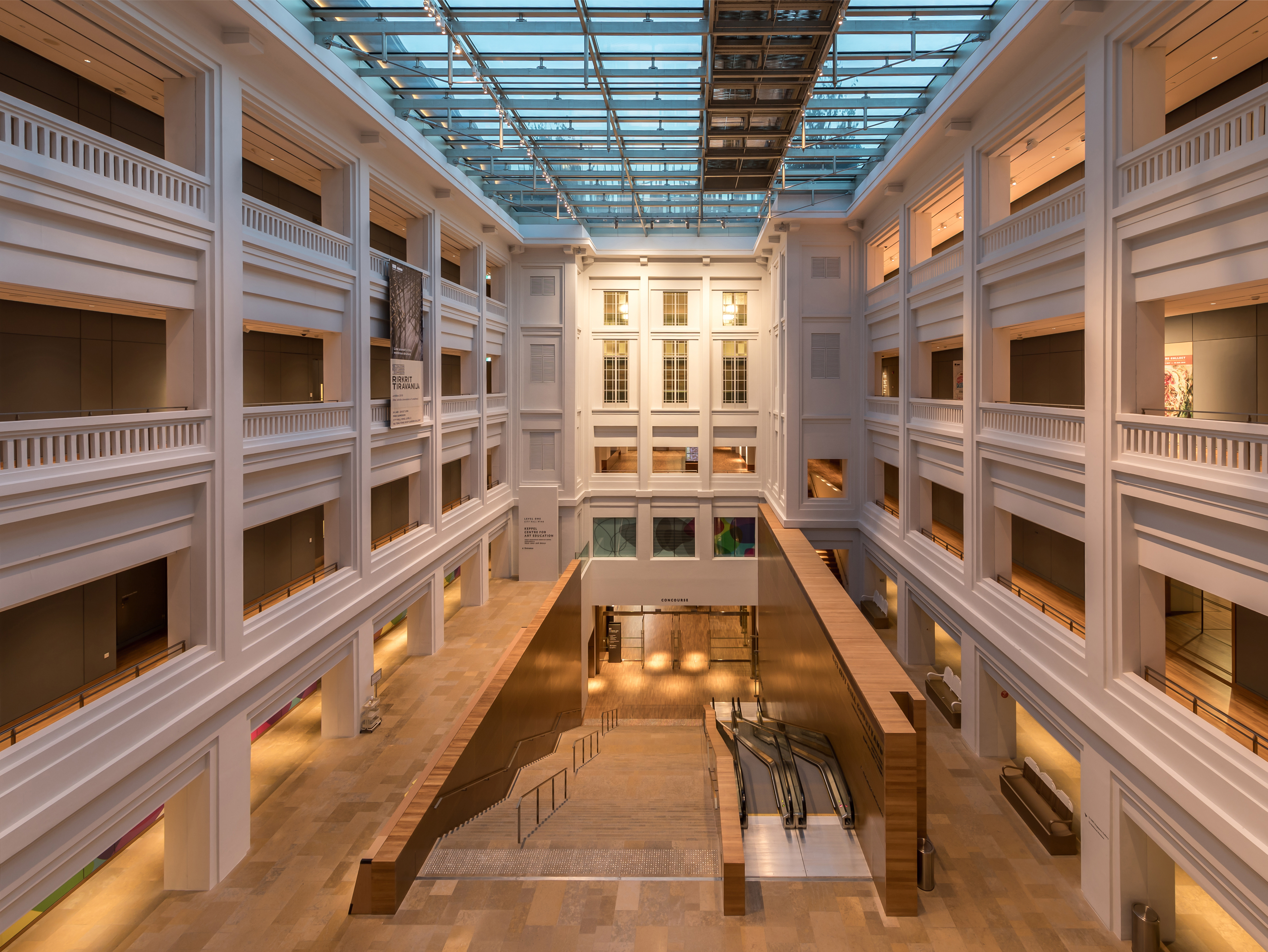 Interior of the National Gallery of Singapore with the airy corridors on 4 levels, the staircases and escalators, in the evening. Architect : Jean-Francois Milou